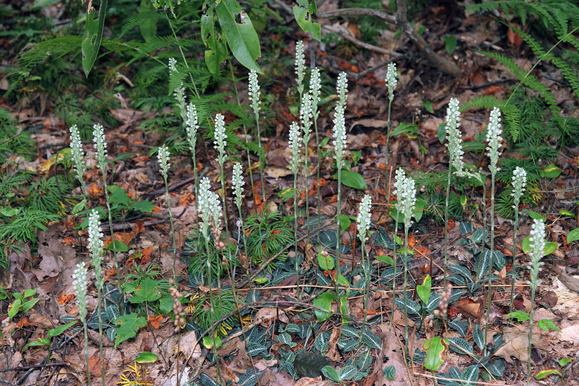 Goodyera pubescens